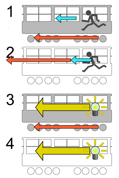 Sagnac effect 1 (No text)